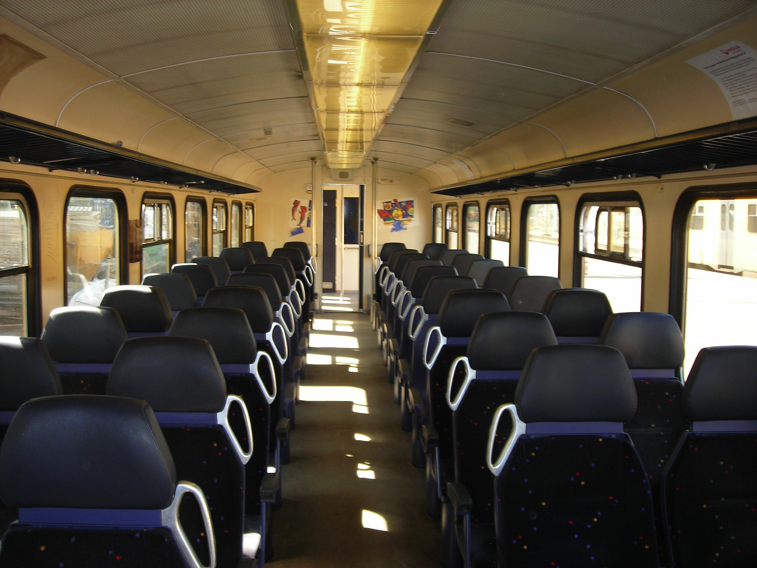 The inside of a "Wadloper" train